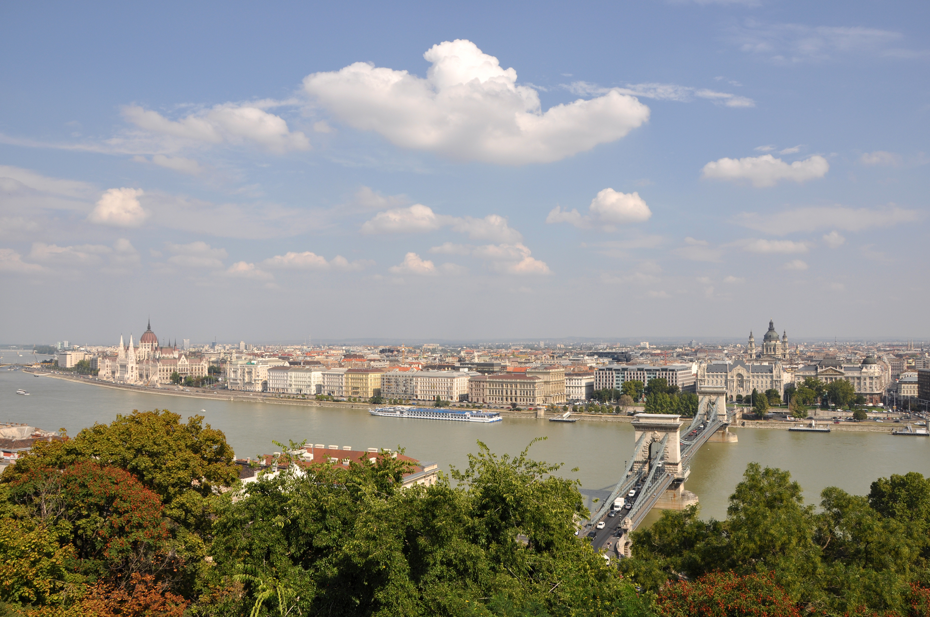 Budapest (Hungary): panorama of the Danube and Pest, seen from Buda Castle Hill